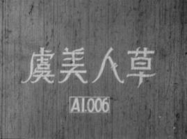 Gubijinso